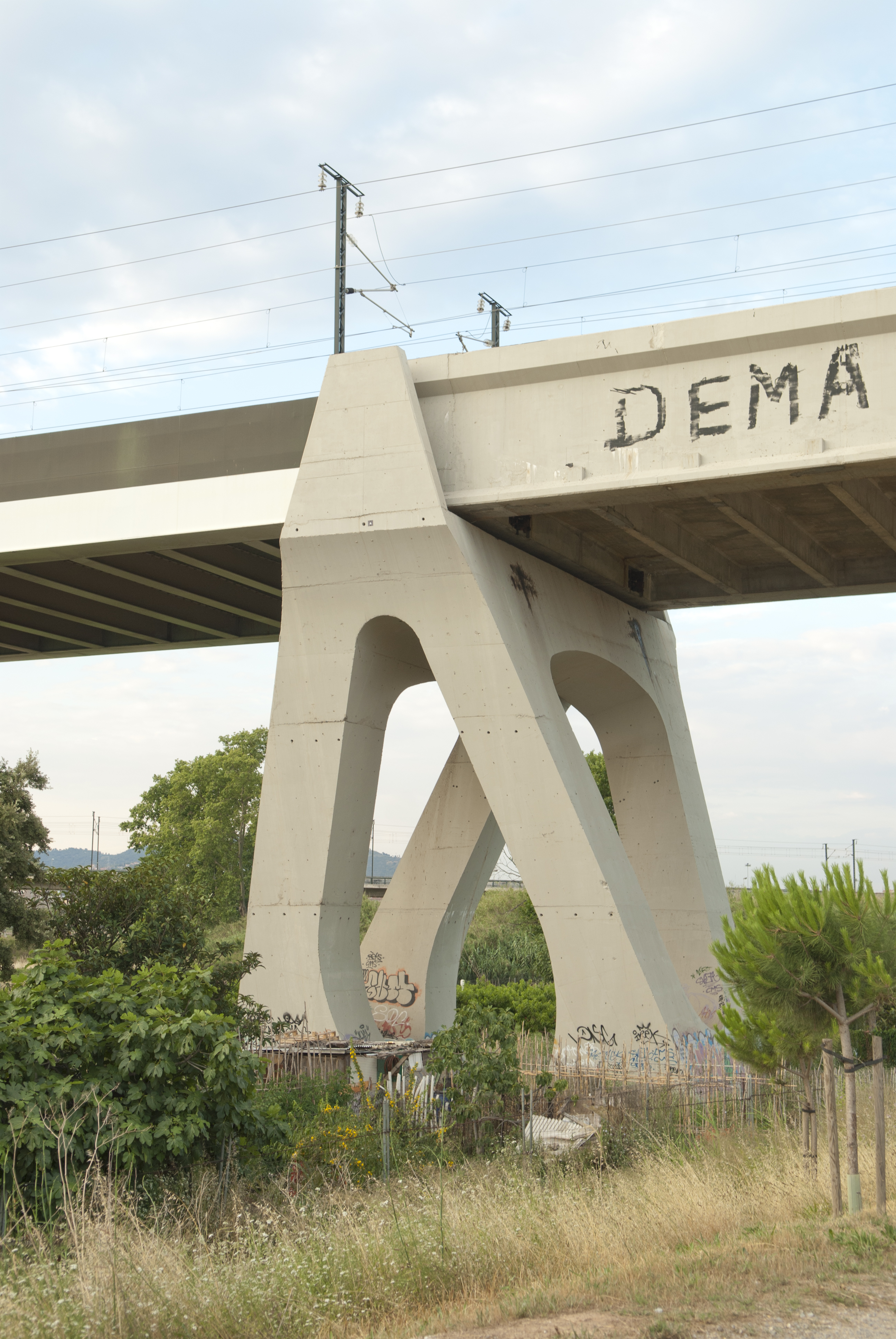 Image of Sant Boi de Llobregat bridge.